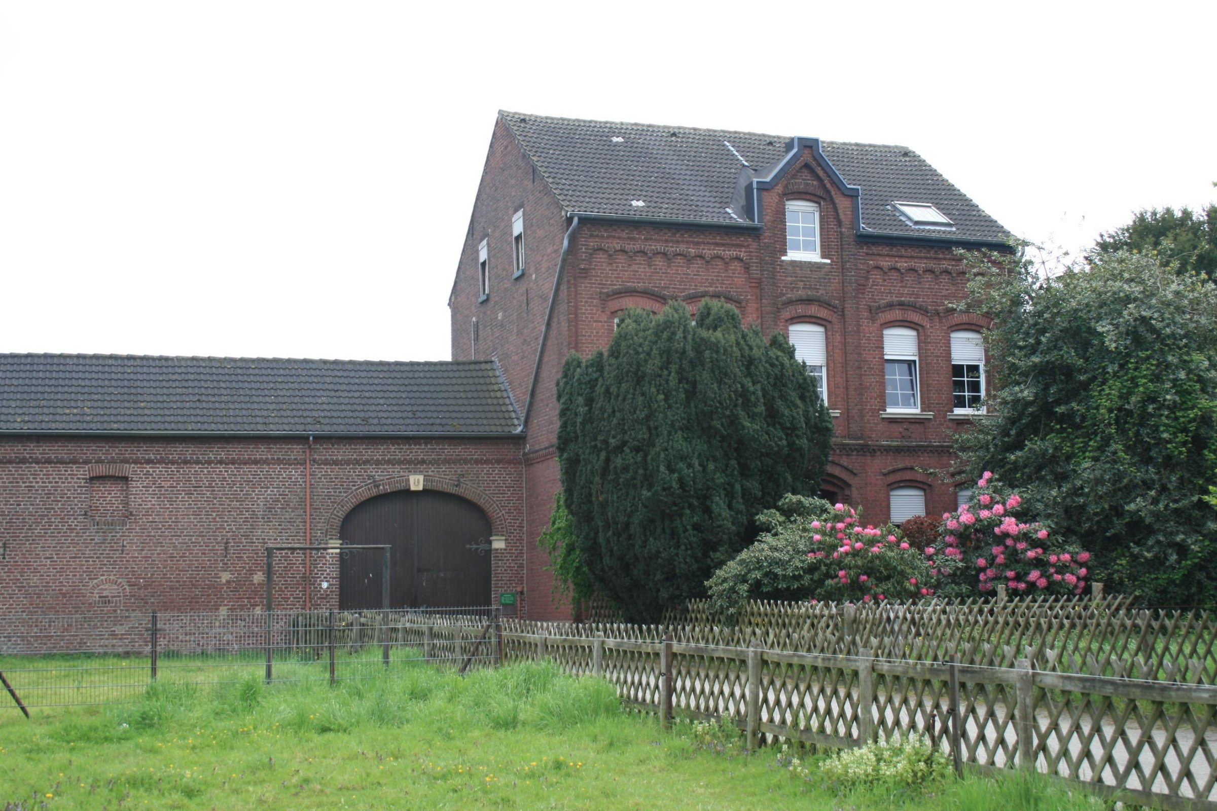 Cultural heritage monument No. G 045 in Mönchengladbach